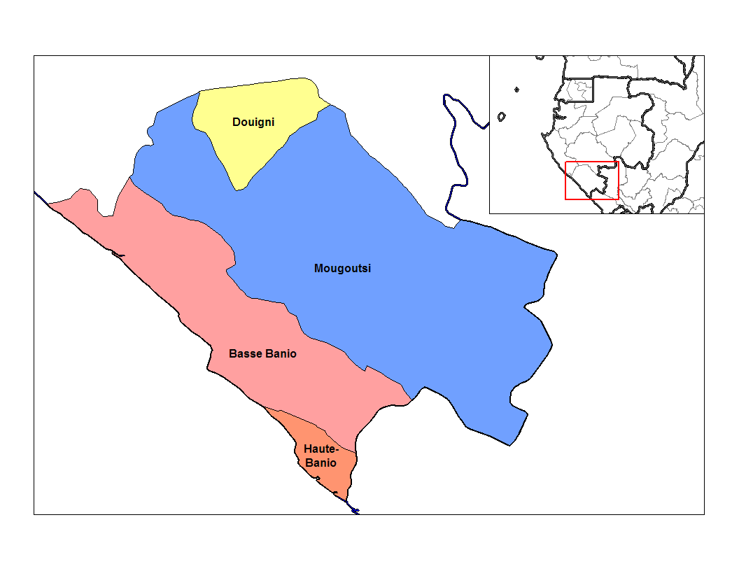 Map of the departments of Nyanga province in Gabon. Created by Rarelibra 20:21, 2 January 2007 (UTC) for public domain use, using MapInfo Professional v8.5 and various mapping resources.